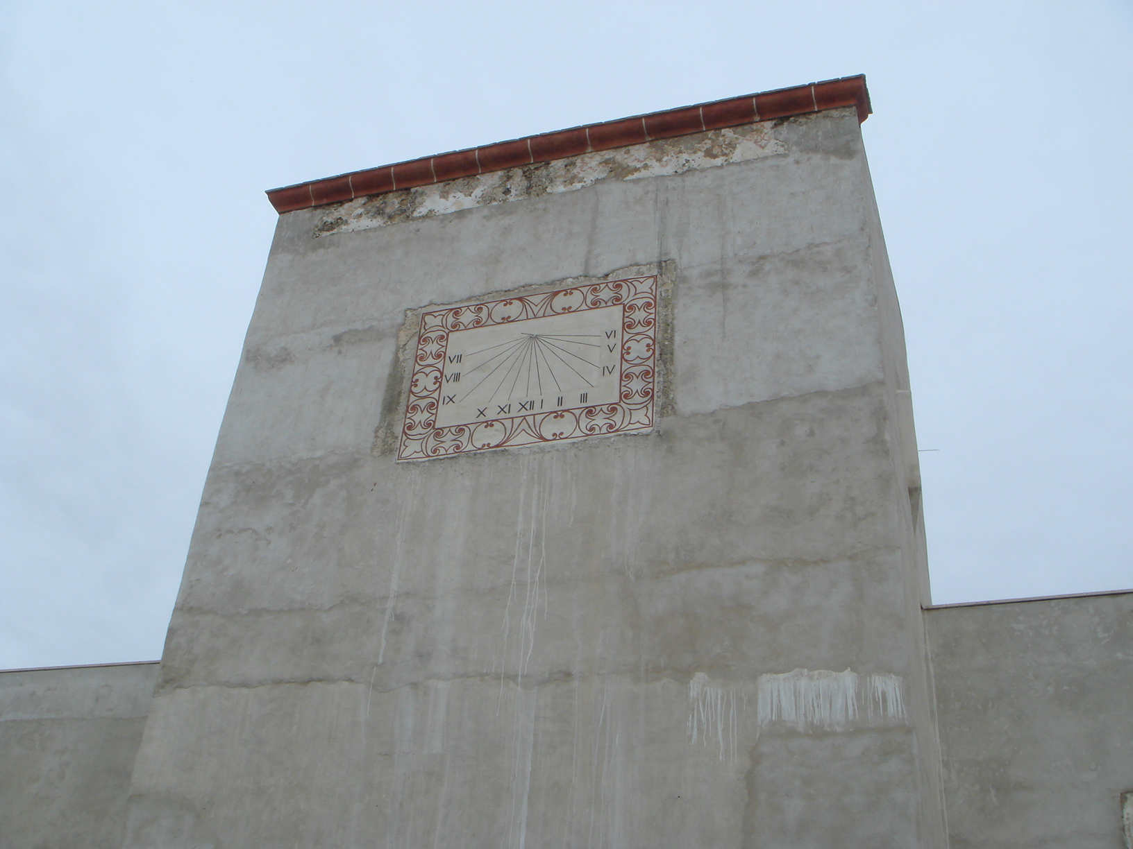 San Romualdo castle, Spain.